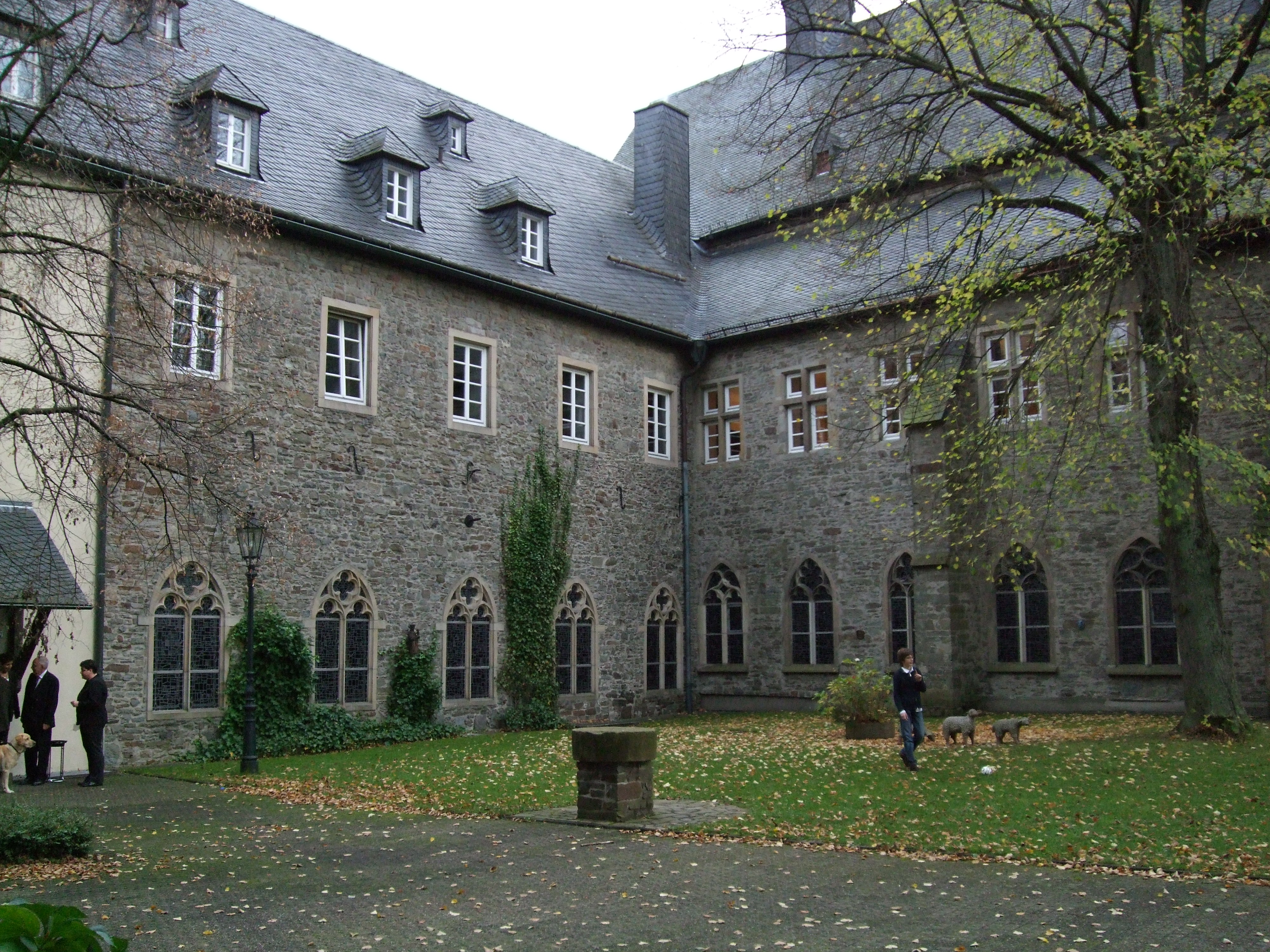 Kloster Steinhaus in Wuppertal-Beyenburg